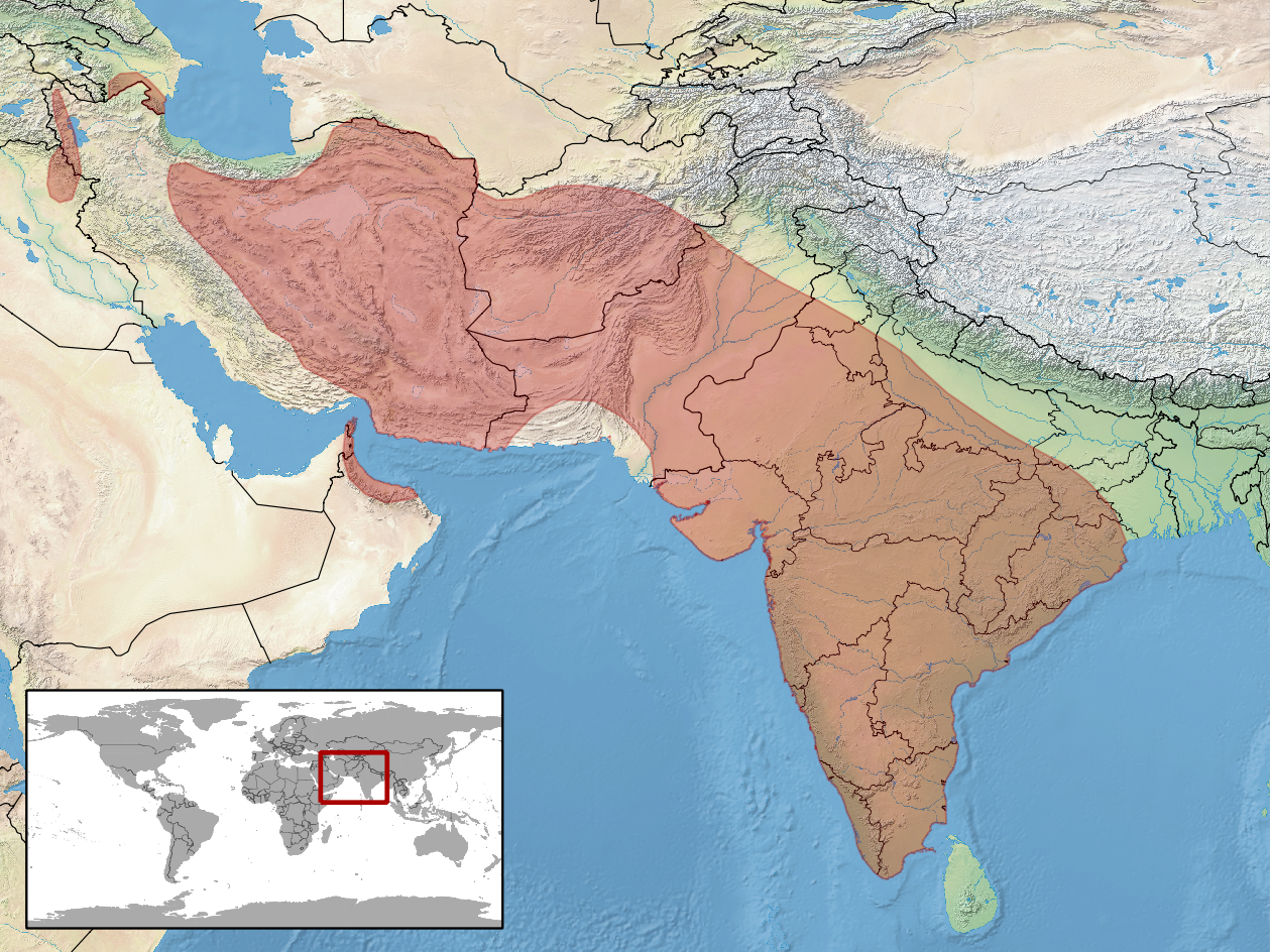 geographic distribution of Pseudocerastes persicus (Native: Afghanistan; Azerbaijan; India; Iran, Islamic Republic of; Iraq; Kuwait; Oman; Pakistan; Saudi Arabia; United Arab Emirates)